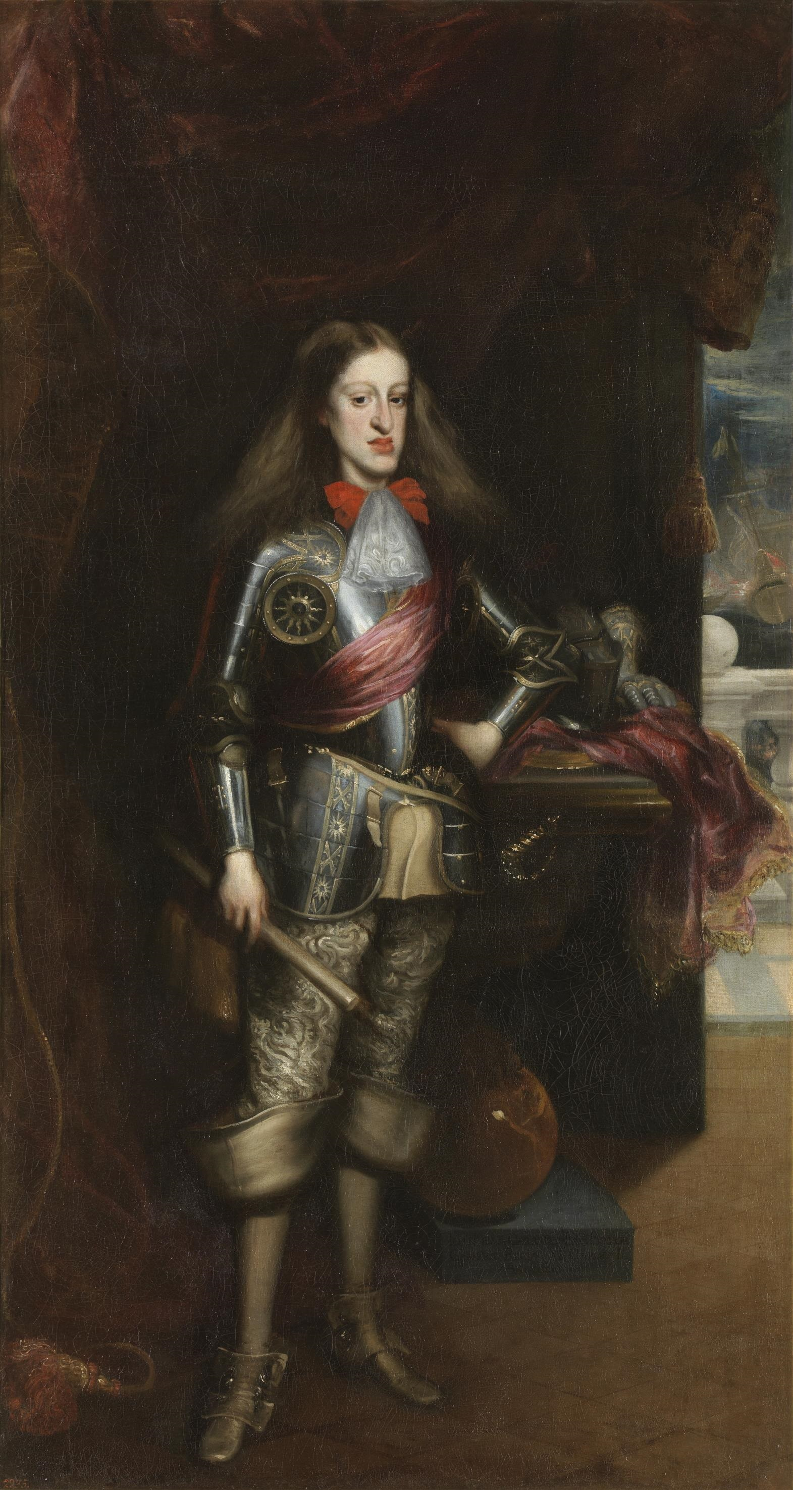 The son of Felipe IV (1605-1665) and Mariana of Austria (1634-1696), Carlos II (1661-1700) was the last King of the Hapsburg Dynasty in Spain. He appears dressed in black, with the chain of the Golden Fleece around his neck. This order from Burgundy, to which he belonged, was first brought to Spain by Felipe el Hermoso (1578-1506). Retrato de Carlos II (1661-1700), hijo de Felipe IV (1605-1665) y Mariana de Austria (1634-1696), último Rey de la dinastía de los Austrias en España. El Monarca aparece vestido de negro y luciendo la condecoración del Toisón de Oro al cuello, orden borgoñona a la que pertenecía y que fue introducida en España por Felipe el Hermoso (1478-1506).